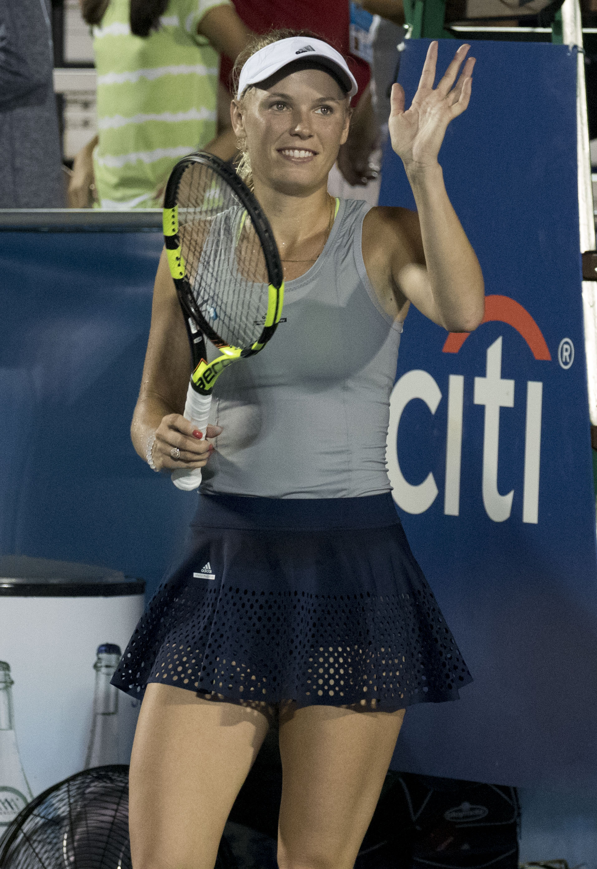 Caroline Wozniacki Citi Open 2016